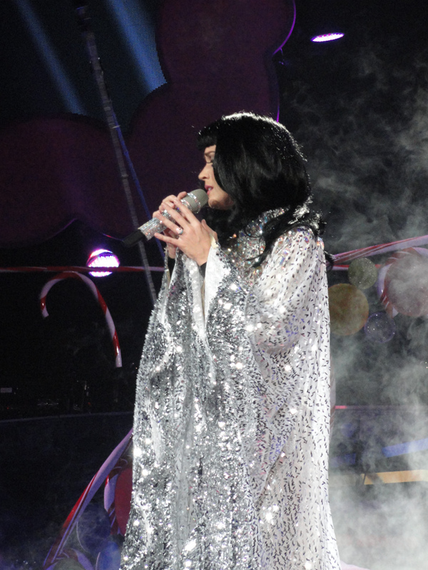 Katy Perry - Seattle, WA 7/20/2011